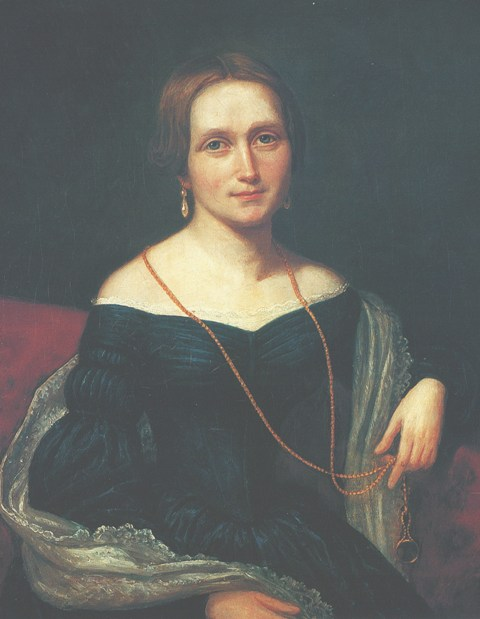 Portrait of norwegian author Camilla Collett (1813-1895)